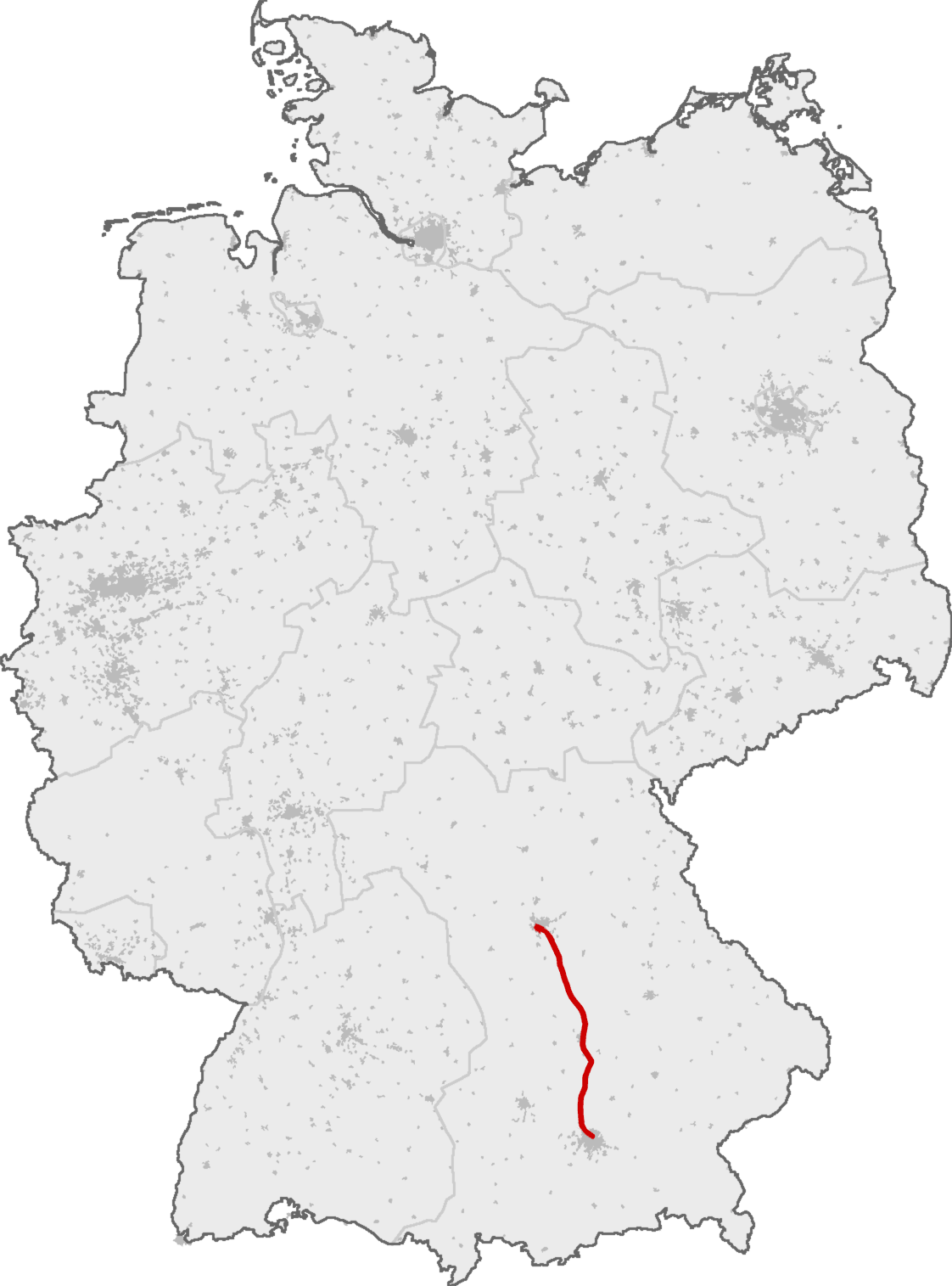 High-speed railway line Nuremberg–Munich. The northern part from Nuremberg to Ingolstadt has been built for speeds up to 300 km/h, the line from Ingolstadt to Munich has been upgraded for speeds up to 200 km/h